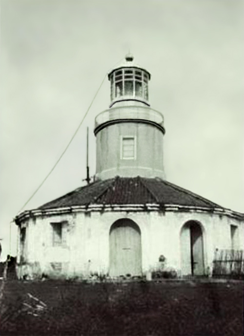 The 1853 lighthouse erected by the Spanish Government on Corregidor Island in Manila Bay, Philippines, but was destroyed in World War II.